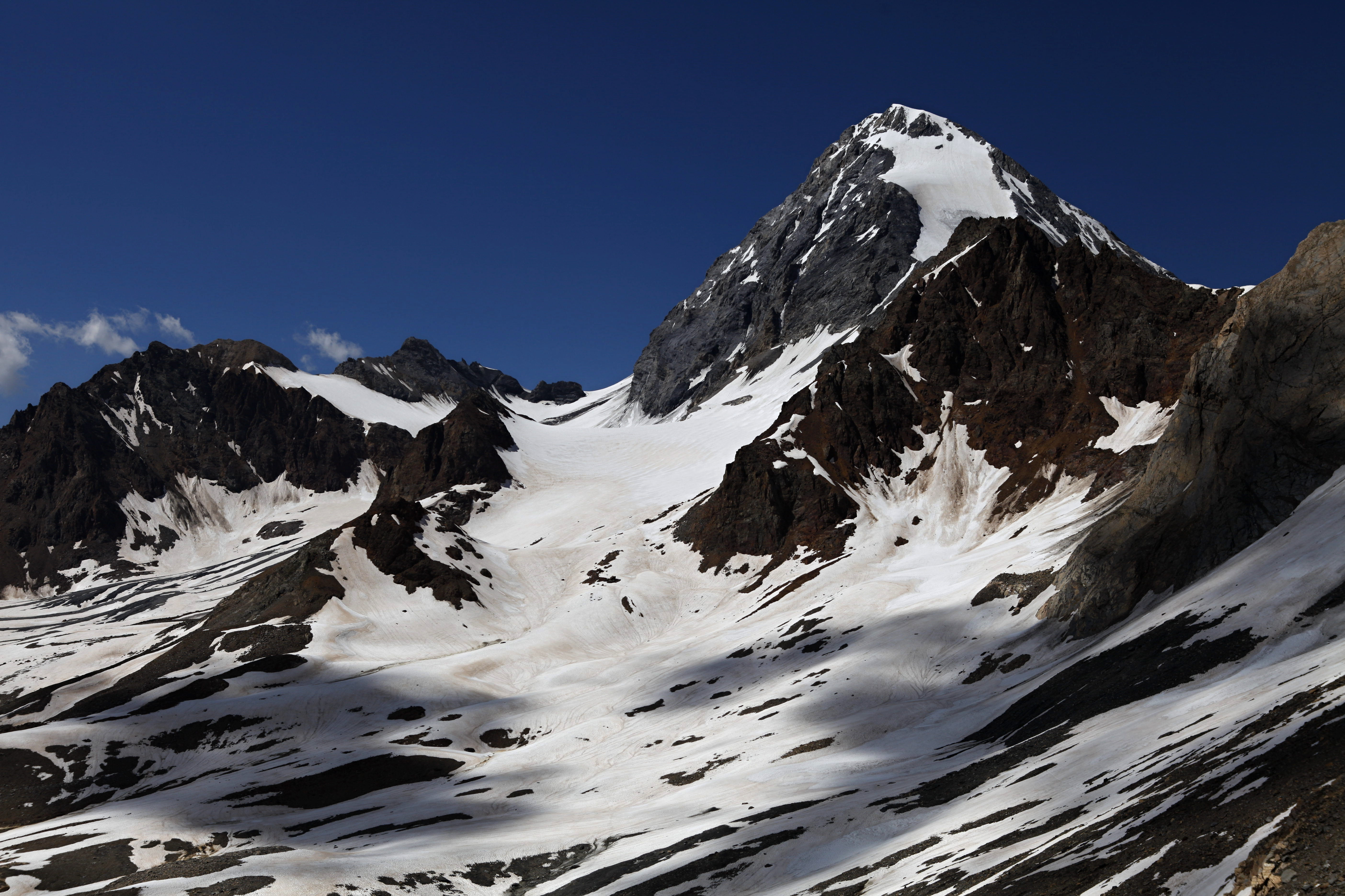 Gran Zebrú mountain located in the Italian Alps (Parco Nationale dello Stelvio)